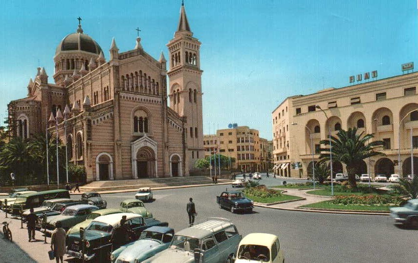 the former Tripoli Cathedral, and Algeria/Elgazayer Square - Maidan al Jazair /Maydan elgazayer, in the 1960's, Tripoli, Libya. The building was designed by Saffo Panteri and built during the early years of colonial rule between 1924-1931.